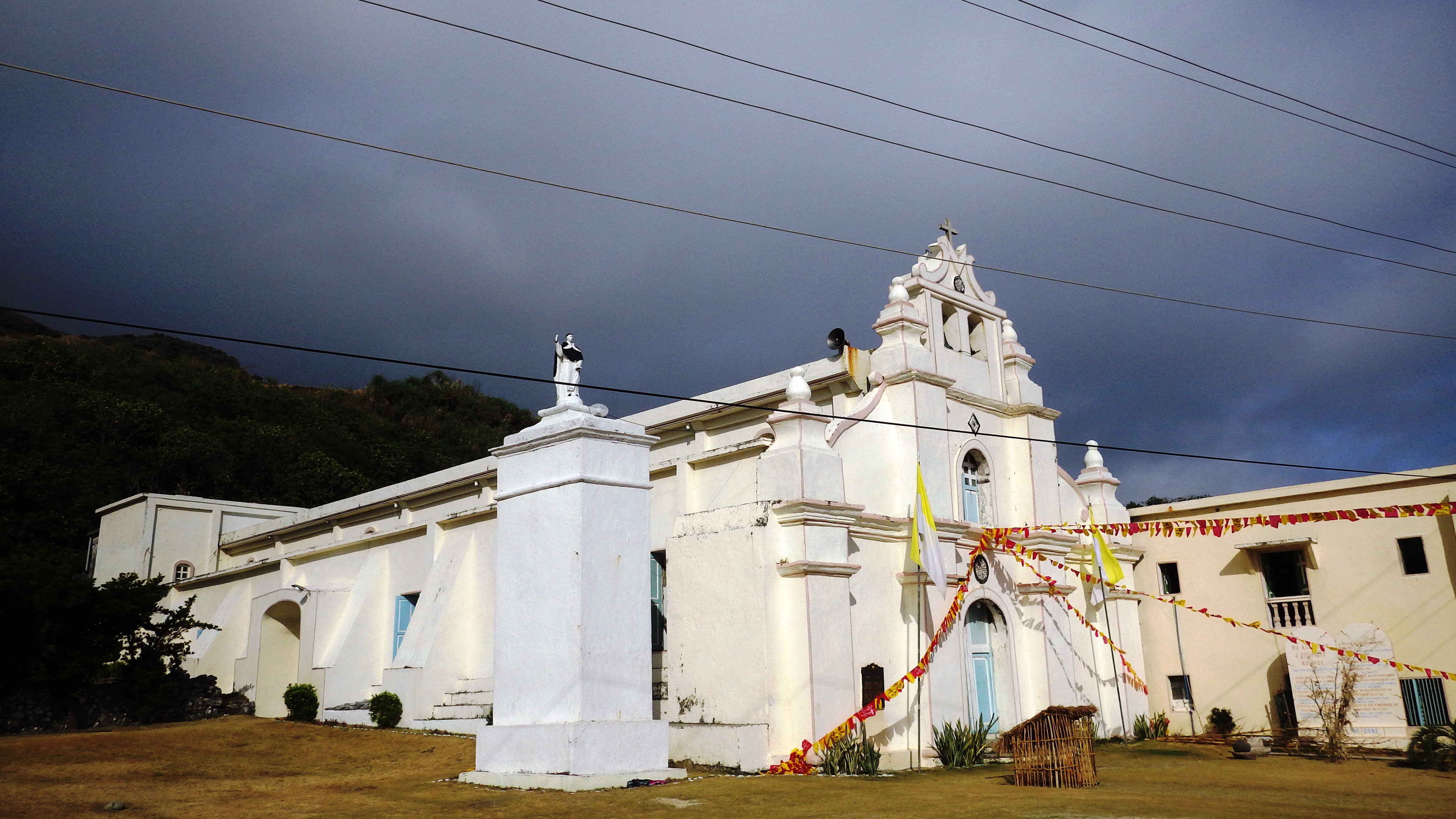 San Vicente de Ferrer Church